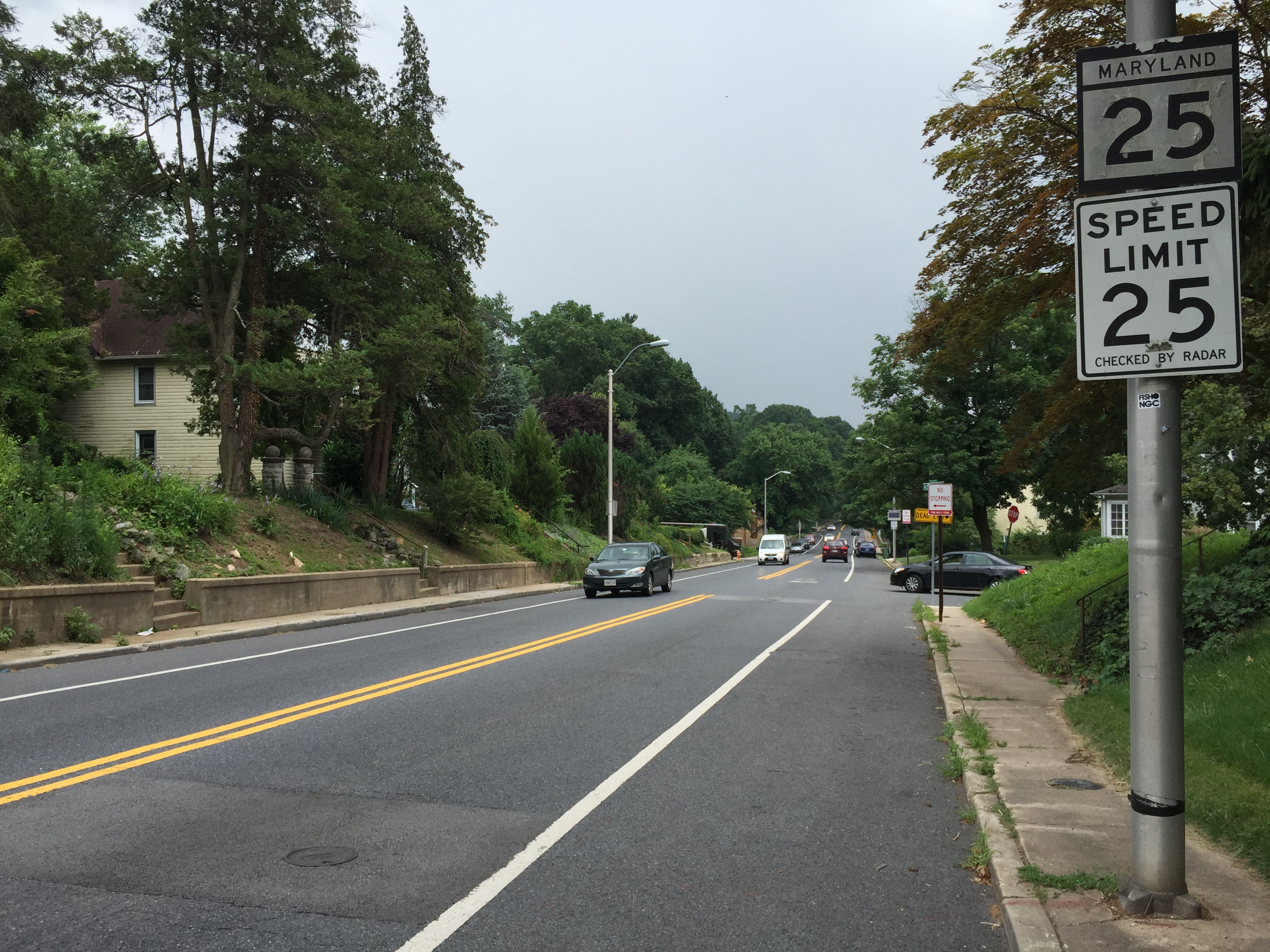 View south along Maryland State Route 25 (Falls Road) near Asbury Road in Baltimore City, Maryland